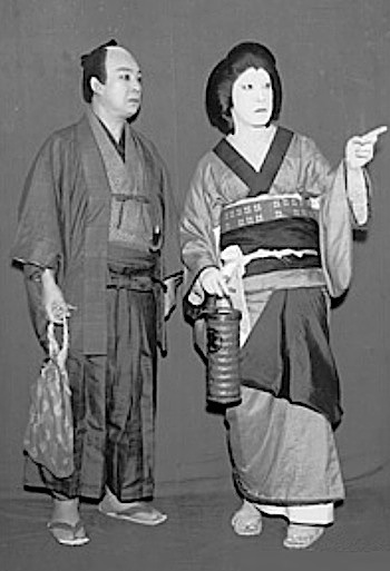 Kikugorō Onoe VI as Matahei and Baigyoku Nakamura III as Otoku in the May 1939 Kabukiza production of Keisei Hangon Kō Act 1 Tosa Shōgen Kankyo no Ba